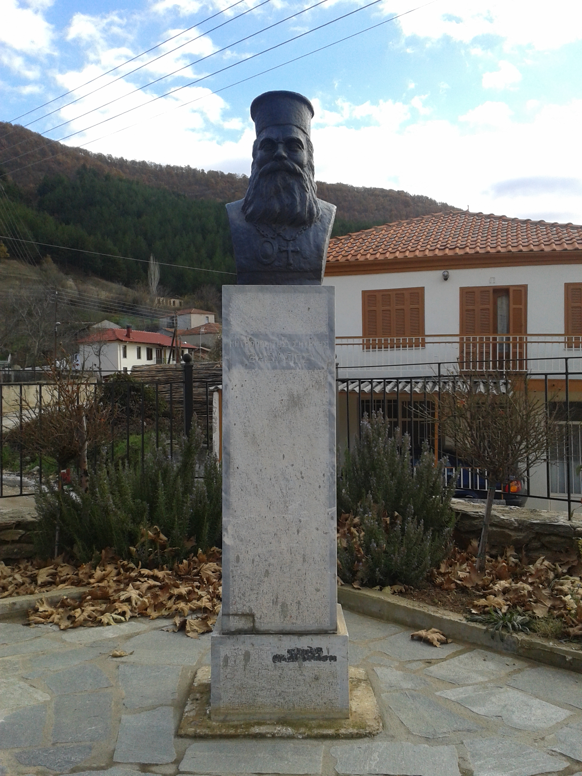 Bust of Basil of Smirna in Vassiliada, Kastoria Prefecture